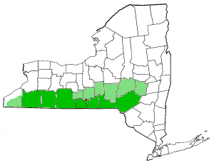 Southern Tier Counties, New York State. Darker green indicates most commonly referred to as "Southern Tier Counties." Light green indicates other counties occasionally associated with the Southern Tier.